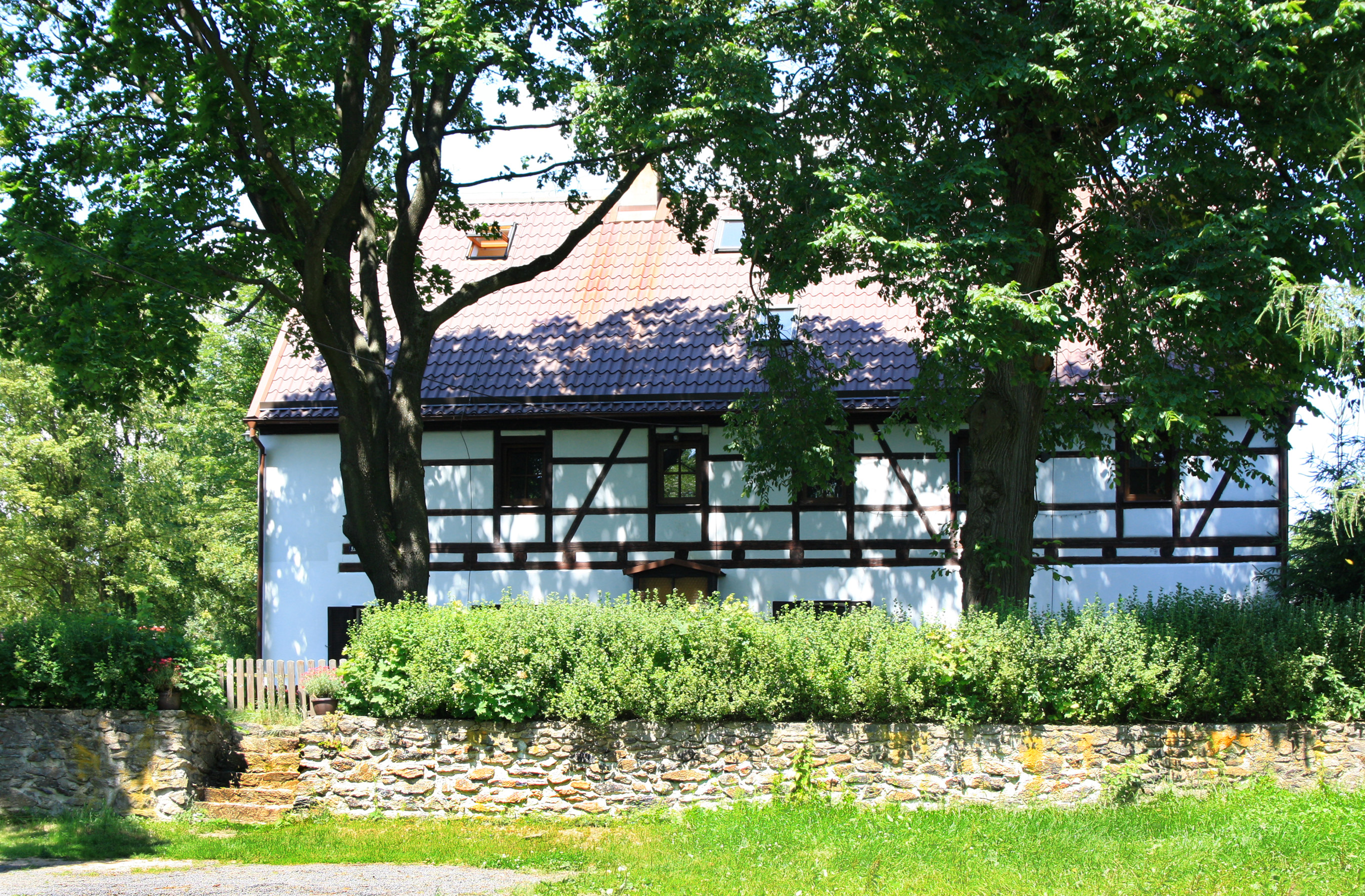 Upper part of Mezihoří village, part of Blatno, Czech Republic